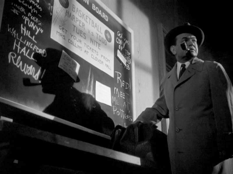 Screenshot of Edward G. Robinson in The Stranger